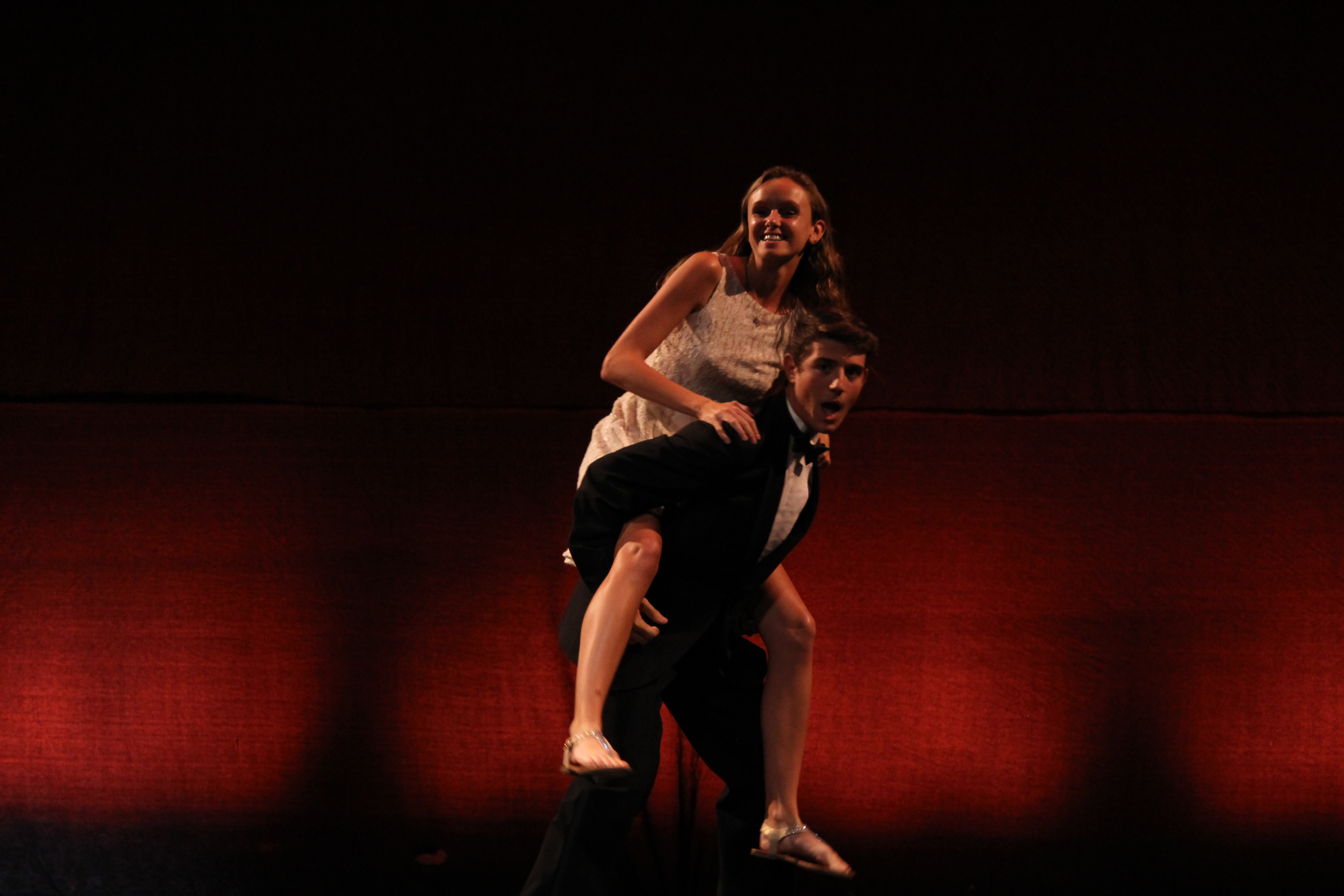 Campus Tradition